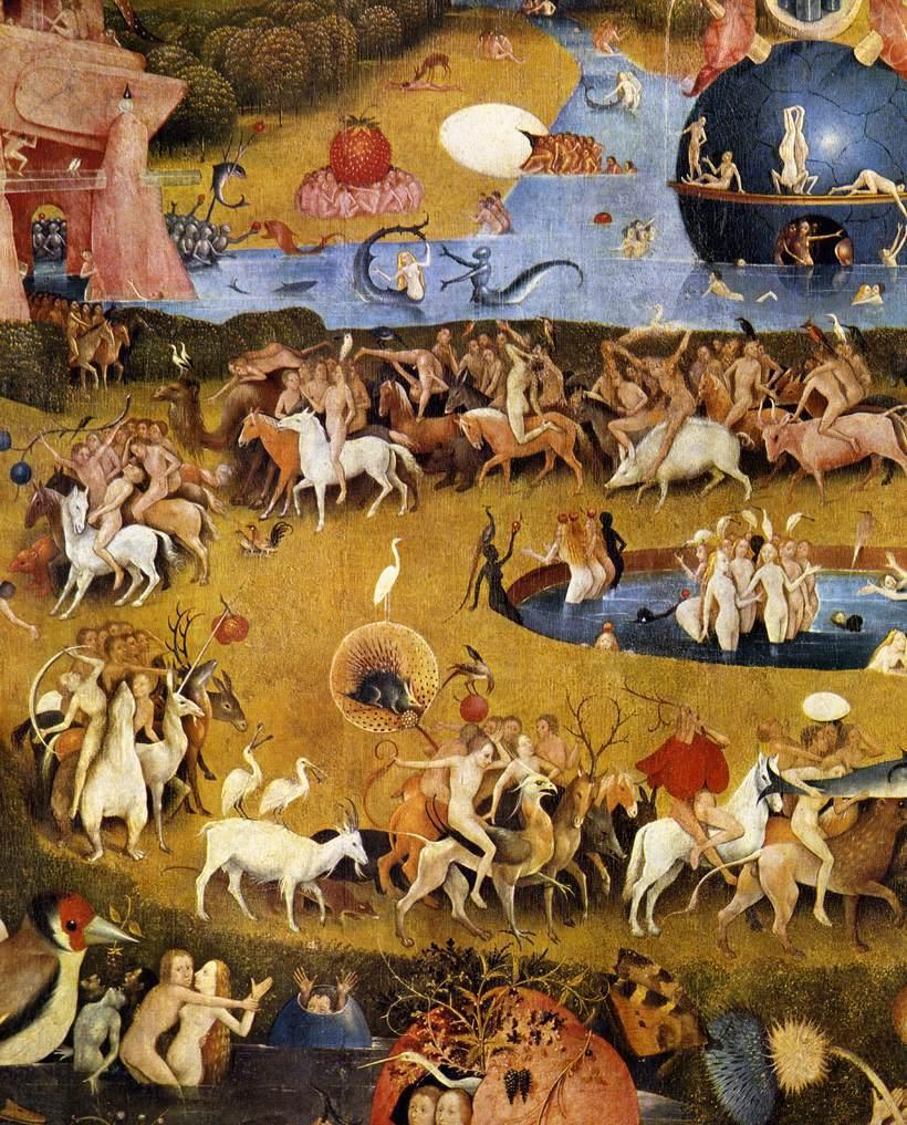 The Garden of Earthly Delights [detail].